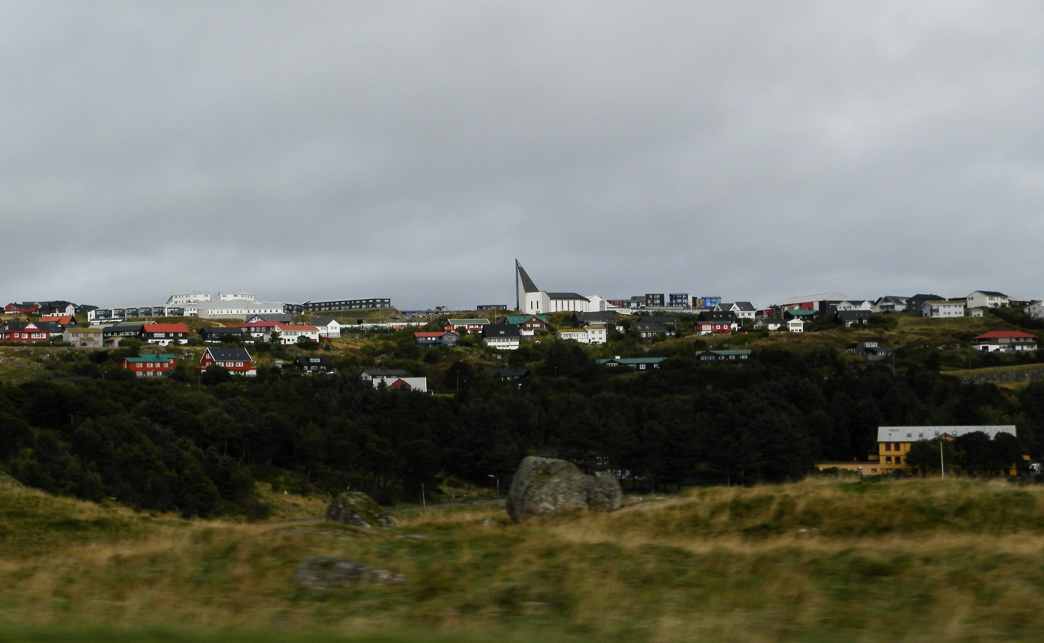 The upper part of Hoyvík and a part of Hoydalar in the foreground. The Church of Hoyvík is in the centre of the photo.